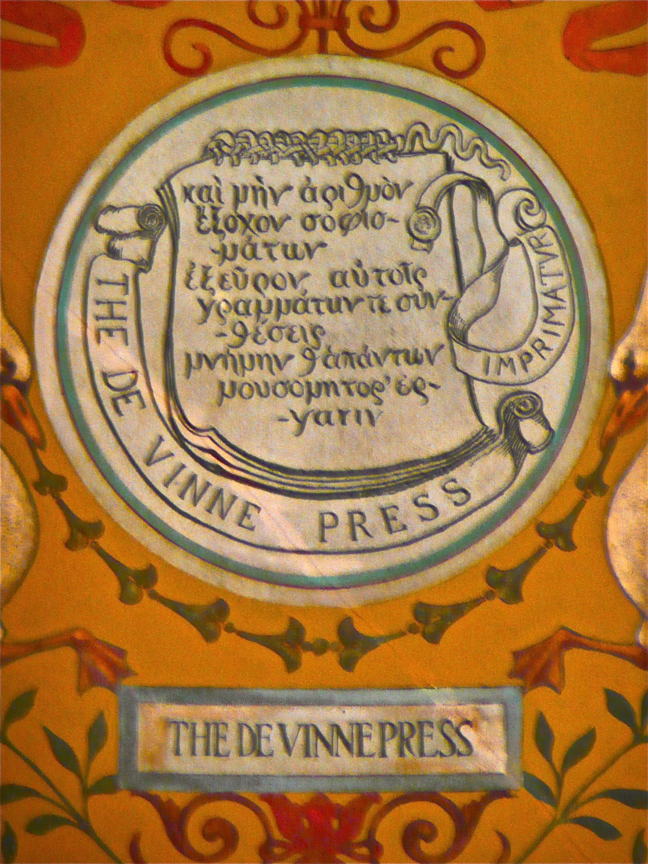 DeVinne Press printer's mark. From ceiling of the Great Hall of the Library of Congress, painted in 1890. Photo taken at the LOC 2012 Flickr Photo Meetup